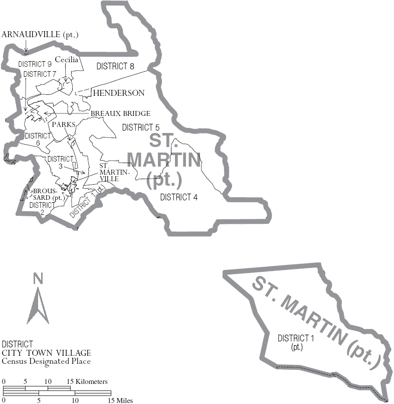 Map of St._Martin Parish, Louisiana, United States with municipal and district boundaries